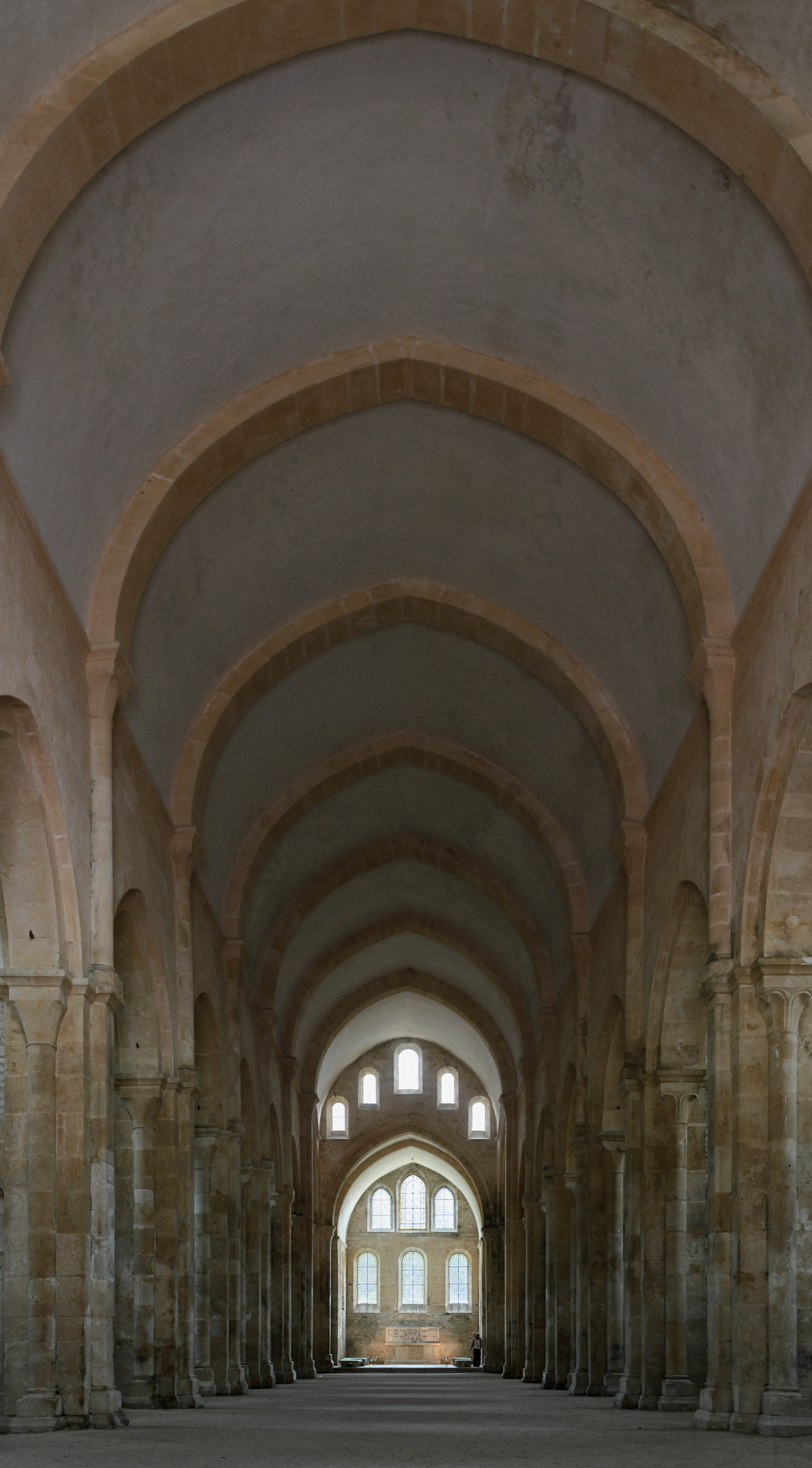 Abbey of Fontenay, Marmagne, Côte-d'Or department, Burgundy, France: the nave of the church.